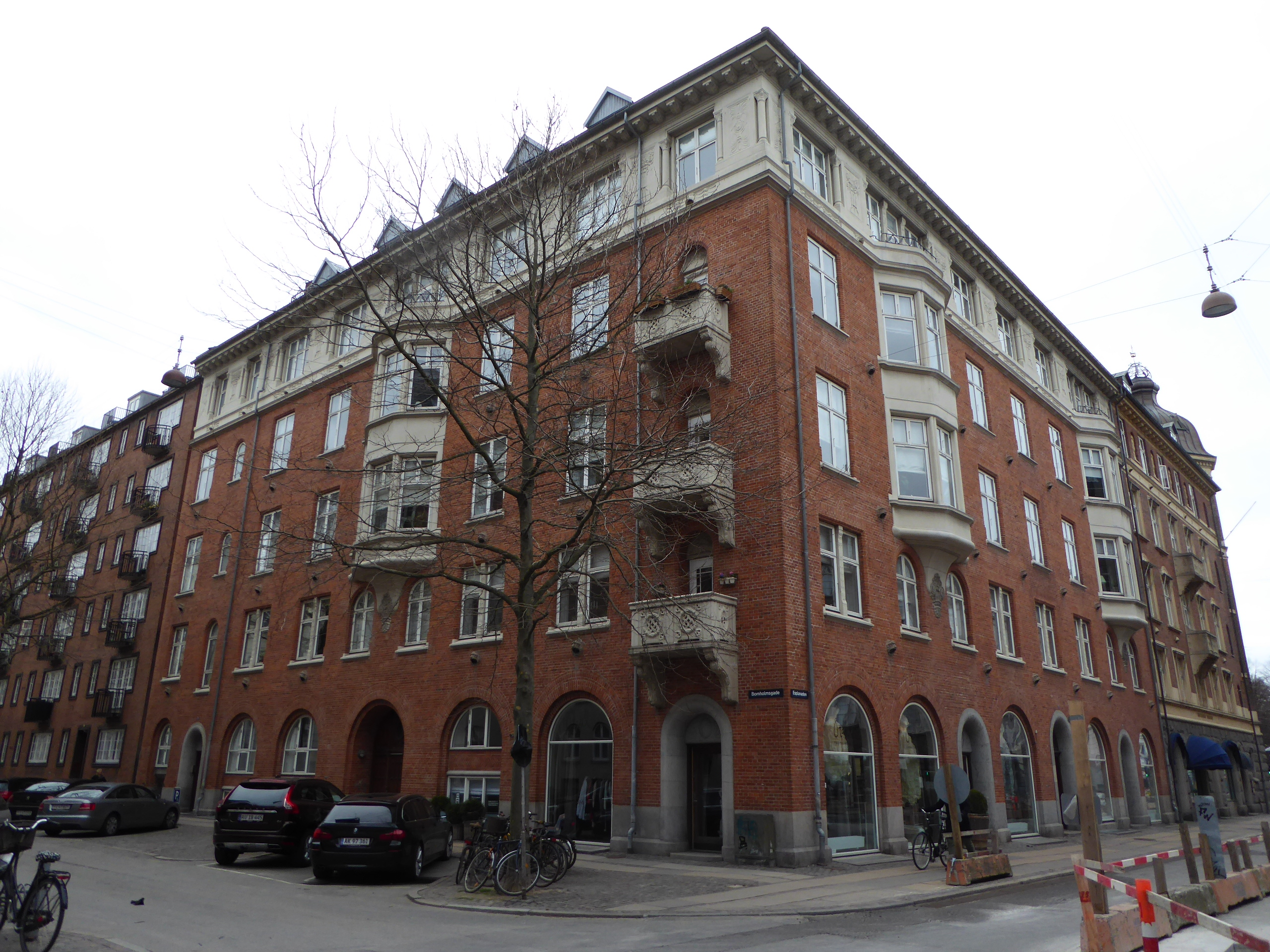 Building at the corner of Bornholmsgade and Esplanaden in Indre By in Copenhagen.